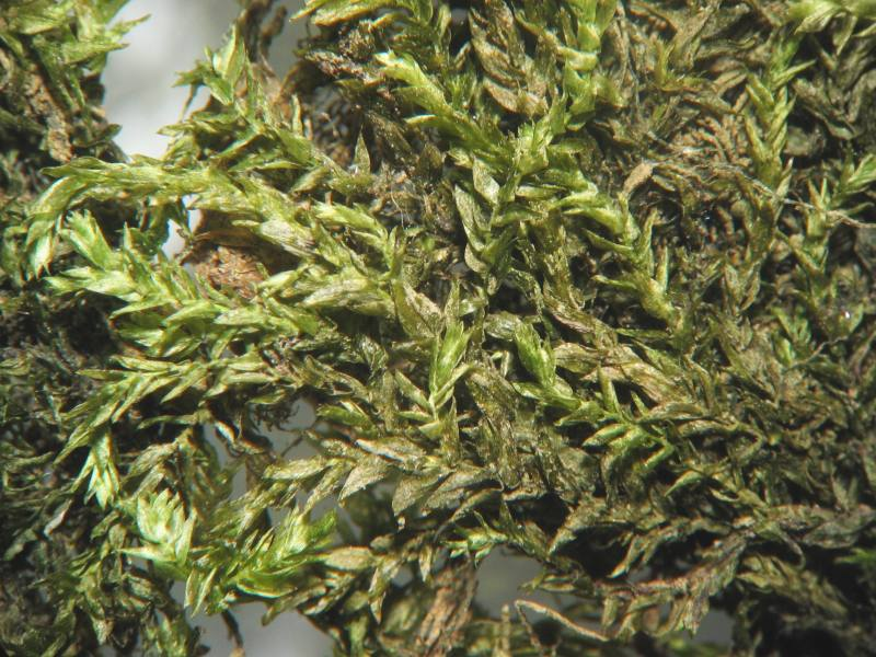 Ufer-Schnabeldeckenmoos (Rhynchostegium riparioides bzw. Platyhypnidium riparioides), Habitus